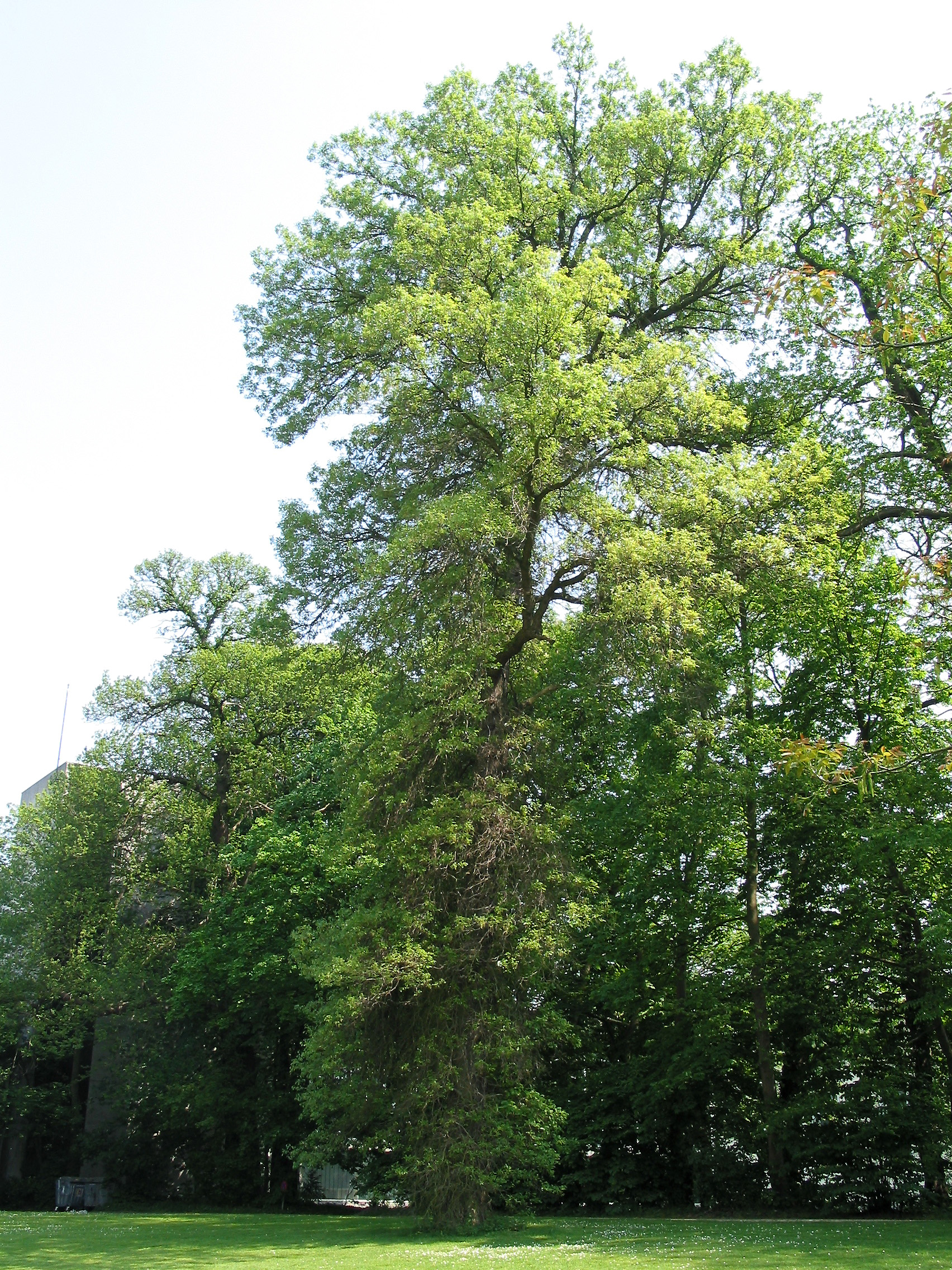 Swamp White Oak (Quercus bicolor) Circumference at 1m50: 269 cm - (2007) Precise location : National Botanic Garden of Belgium - Meise (Belgium).